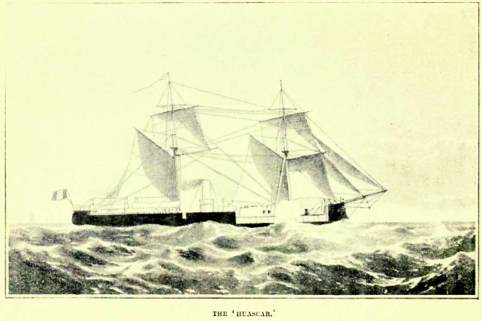 Ship Huascar (page 234)